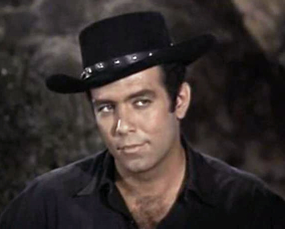 Cropped screenshot of Pernell Roberts from the television series Bonanza. Episode: "The Hopefuls" (1960).